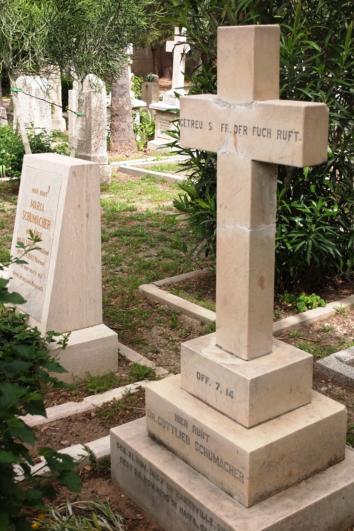 Gottlieb Schumacher gravestone